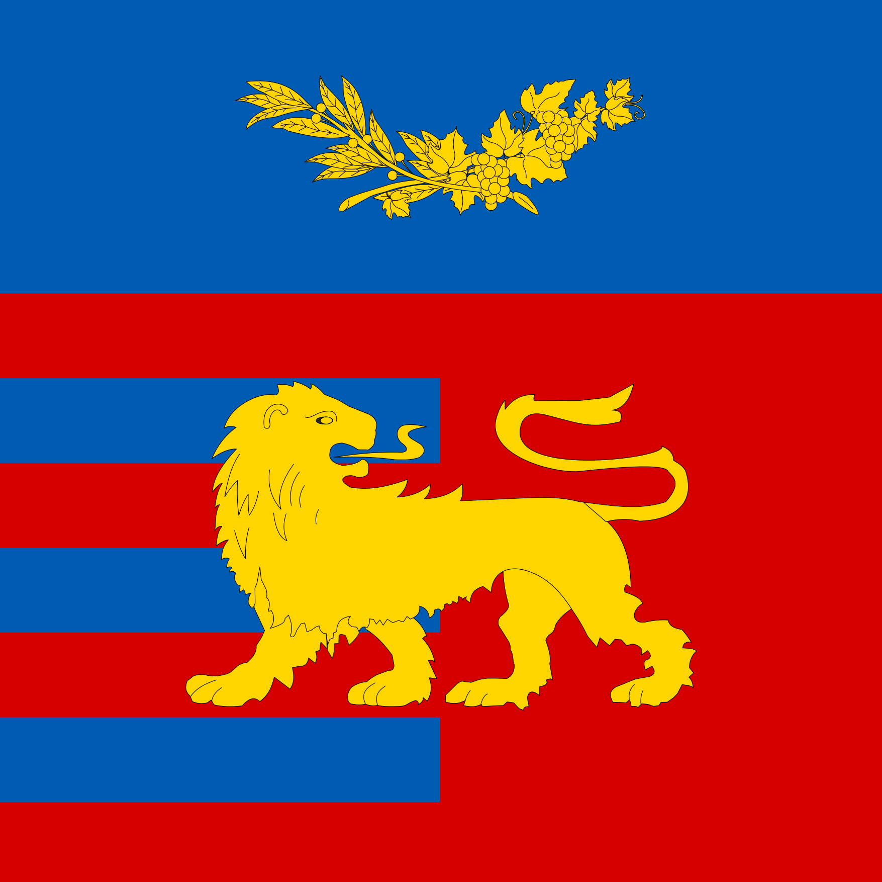 Flag of Yalta, Ukraine Qırımtatarca: Yalta Bayraq